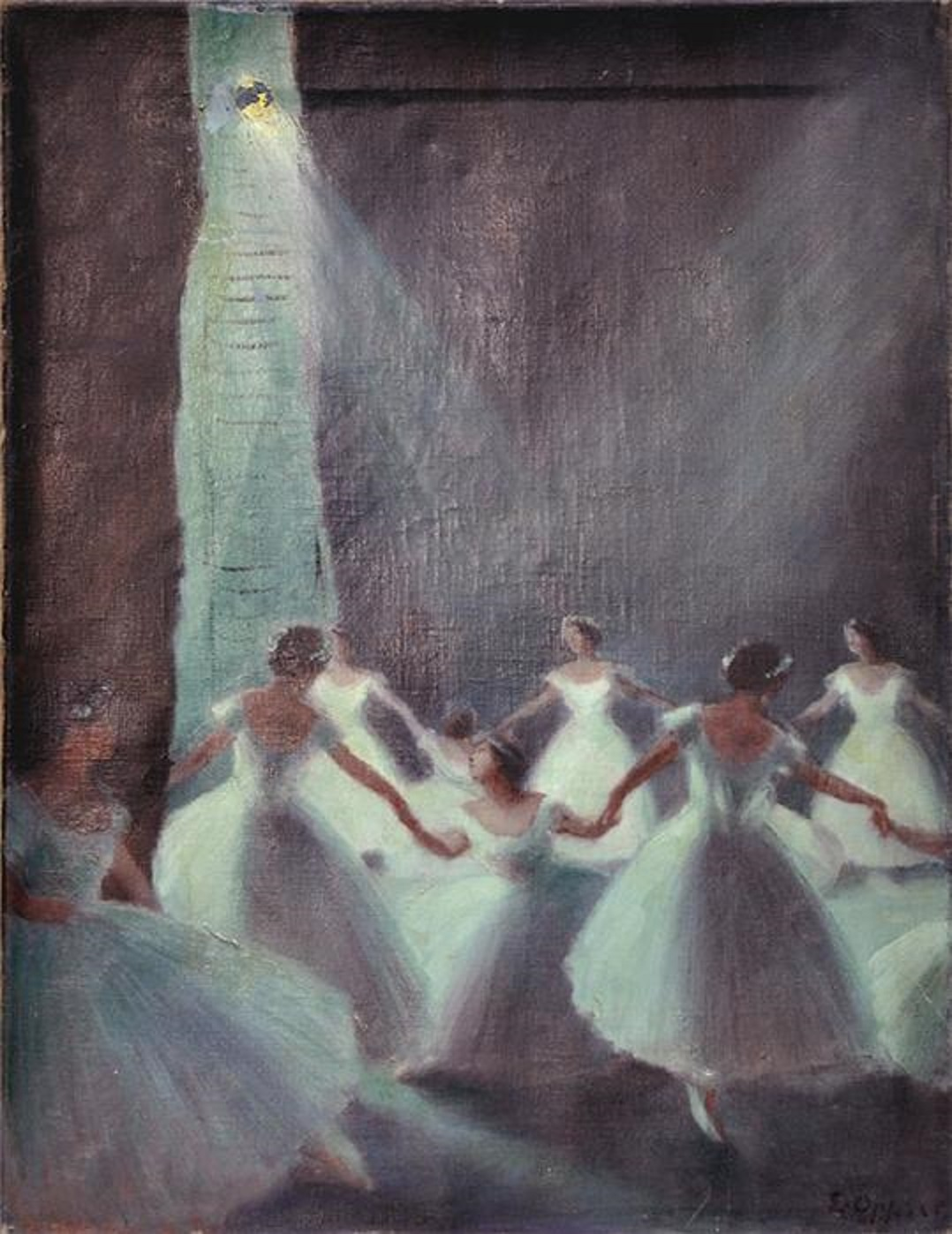 Ballet scene by Oppler